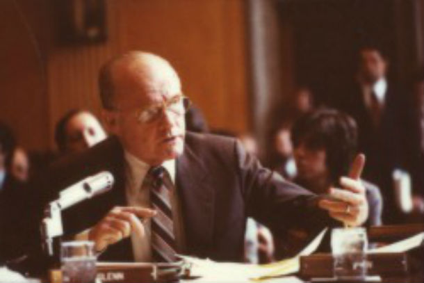 John Glenn at the Senate